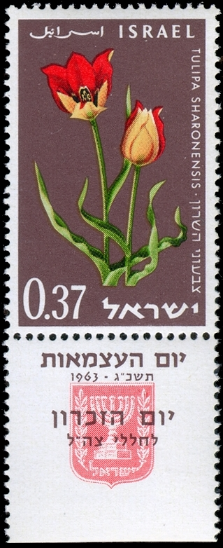 Tulipa agenensis sharonensis on 1963 Israeli stamp